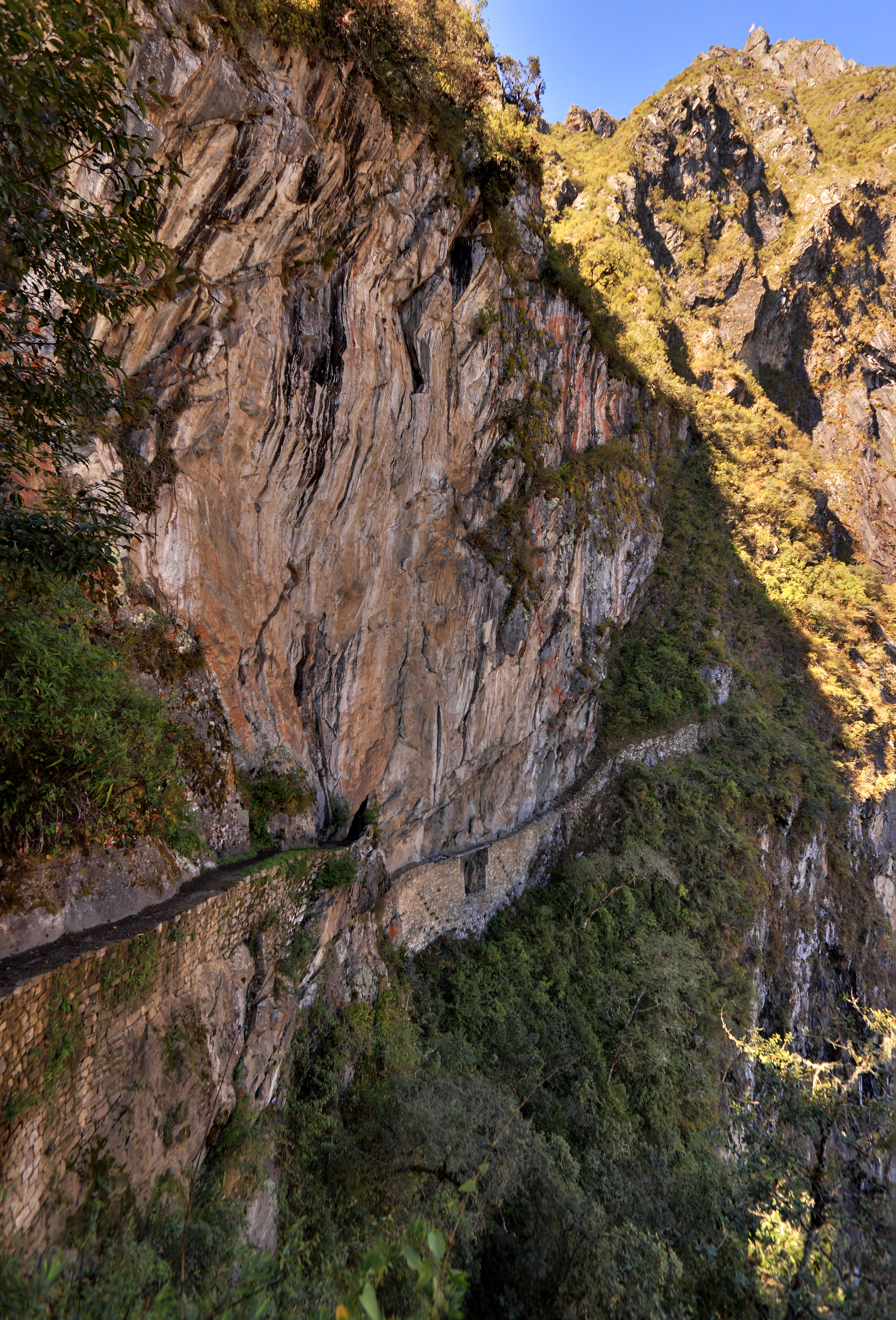 Please, have this description accessible to all by translating it in different languages.